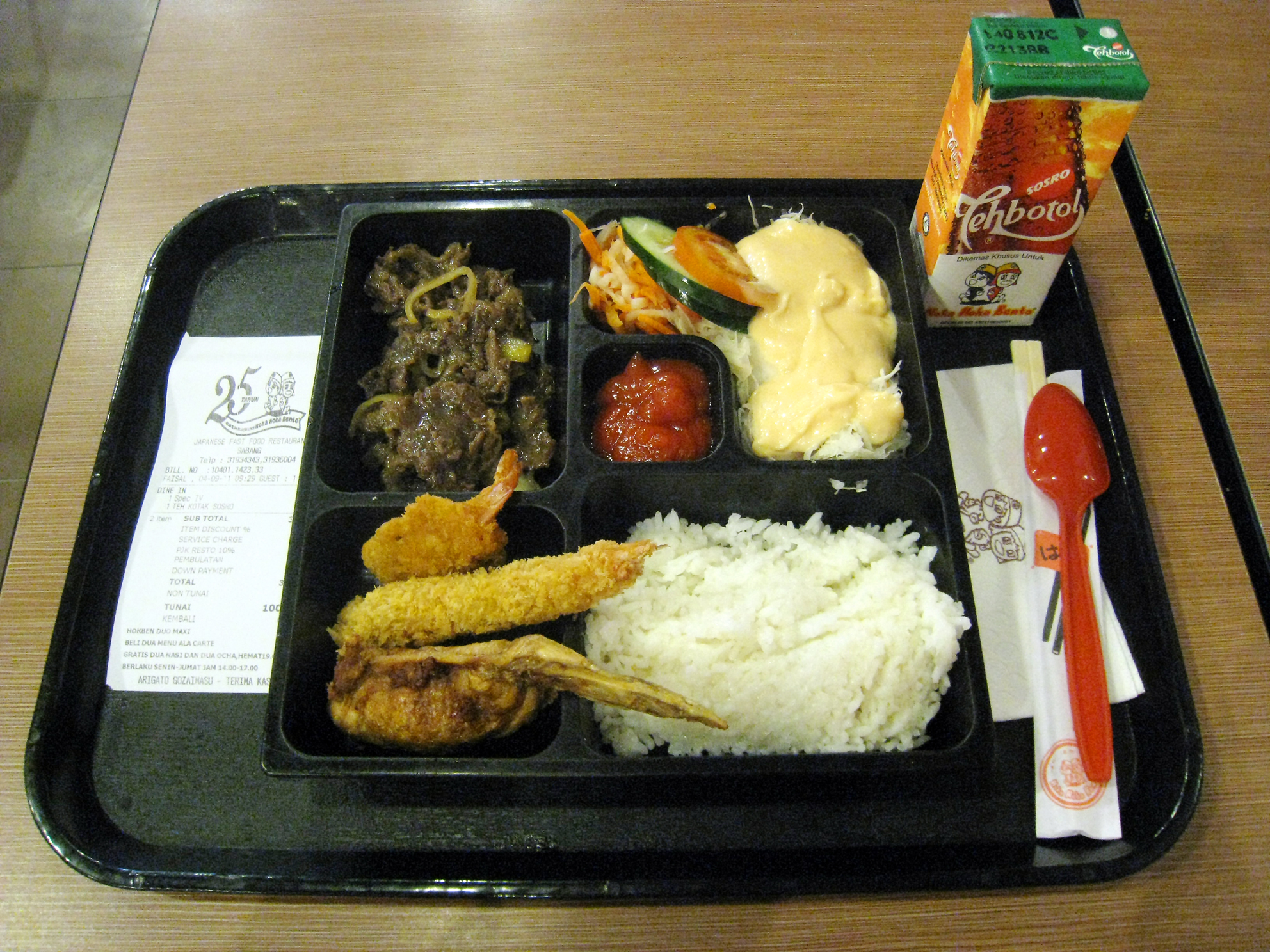 A Package menu of Bento Special 4, consists of beef teriyaki, tori no teba, ebi fried, ebi furai, salad, and rice, with teh botol. Hoka Hoka Bento Japanese Fastfood Restaurant in Jalan Sabang, Central Jakarta.